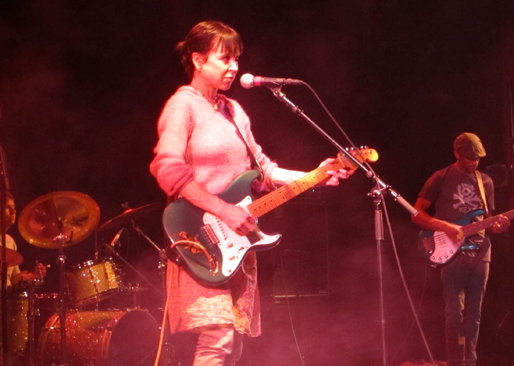 Throwing Muses perform at the Jewish Community Center during San Francisco's Noise Pop Festival - February 28, 2014. Pictured: David Narcizo, Kristin Hersh, Bernard Georges.